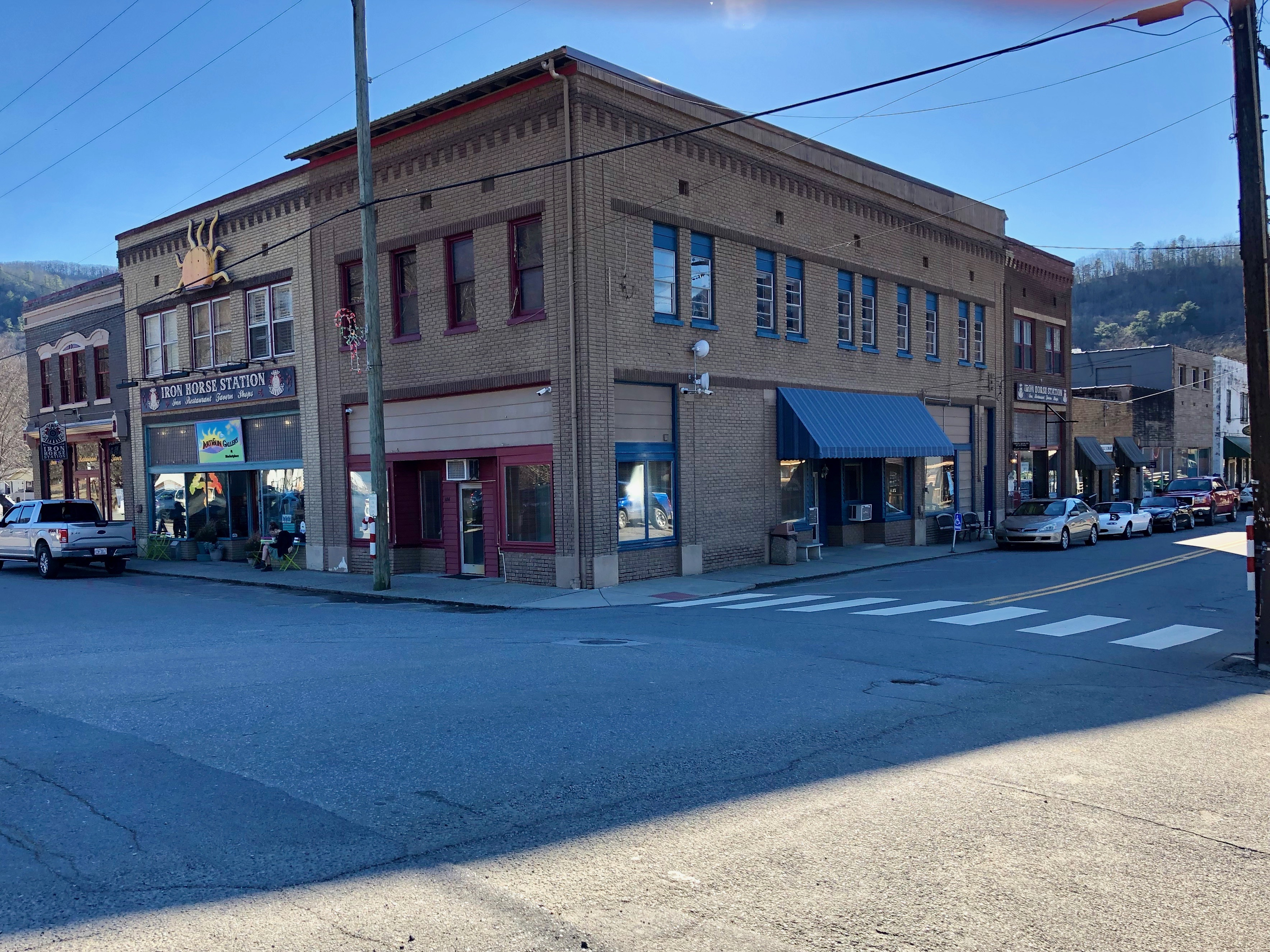 Andrews Avenue, Hot Springs, NC